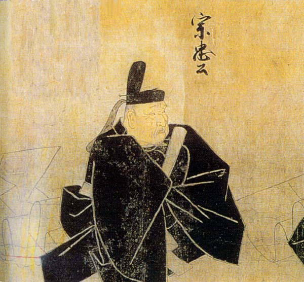 "Tenshi-Sekkan Miei" (Portrait of the Emperor-Regent)- Portrait of Fujiwara Munetada Museum of the Imperial Collections (Sannomaru Shozokan) of the Imperial Household Agency The Minister of the Right Fujiwara Munetada (1062-1141), author of the Chuyuki diaries, was a court noble who was well learned in the ceremonies, old customs, and manners of the Imperial court.